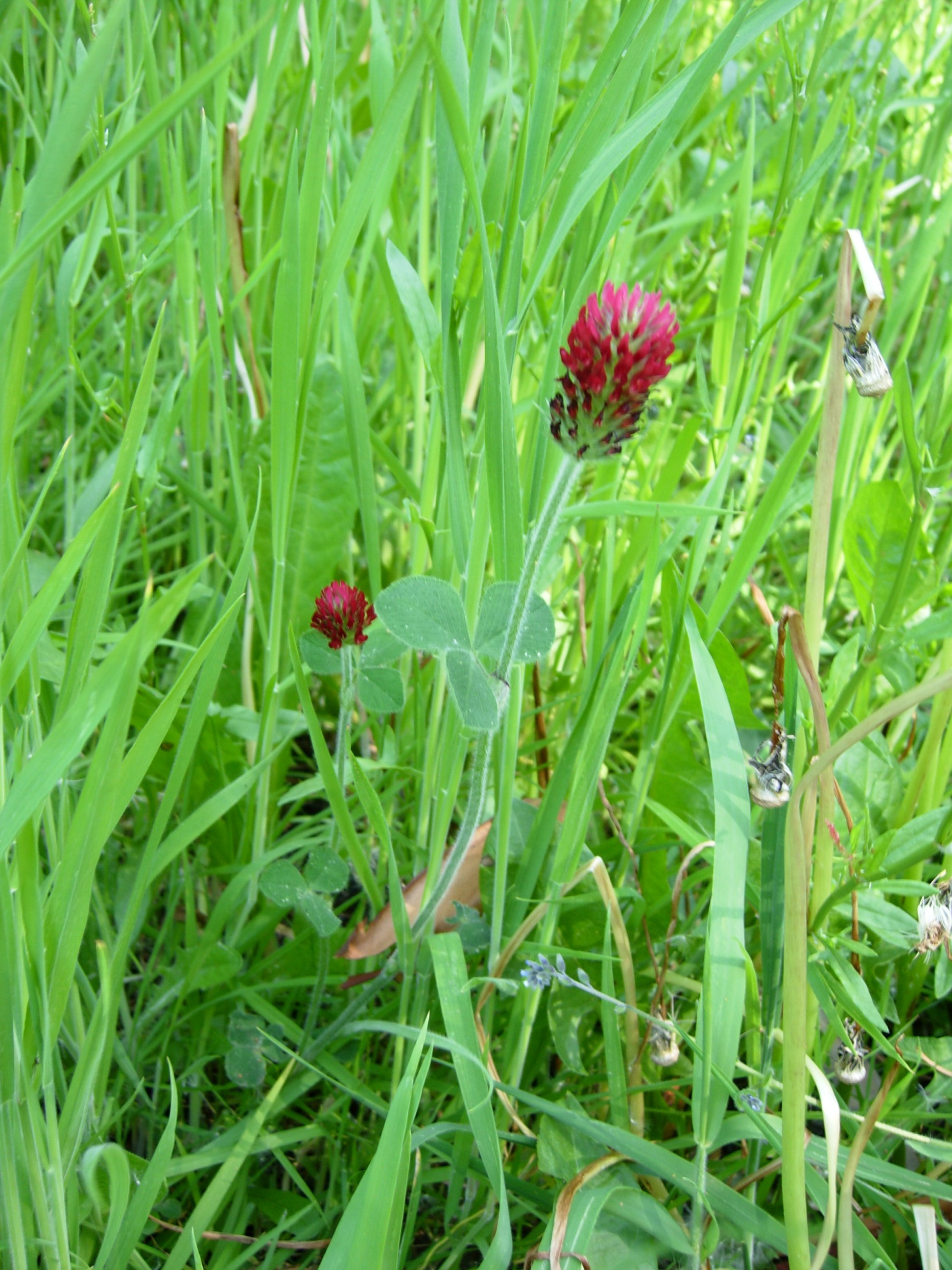 Trifolium incarnatum, in Port Townsend, Washington